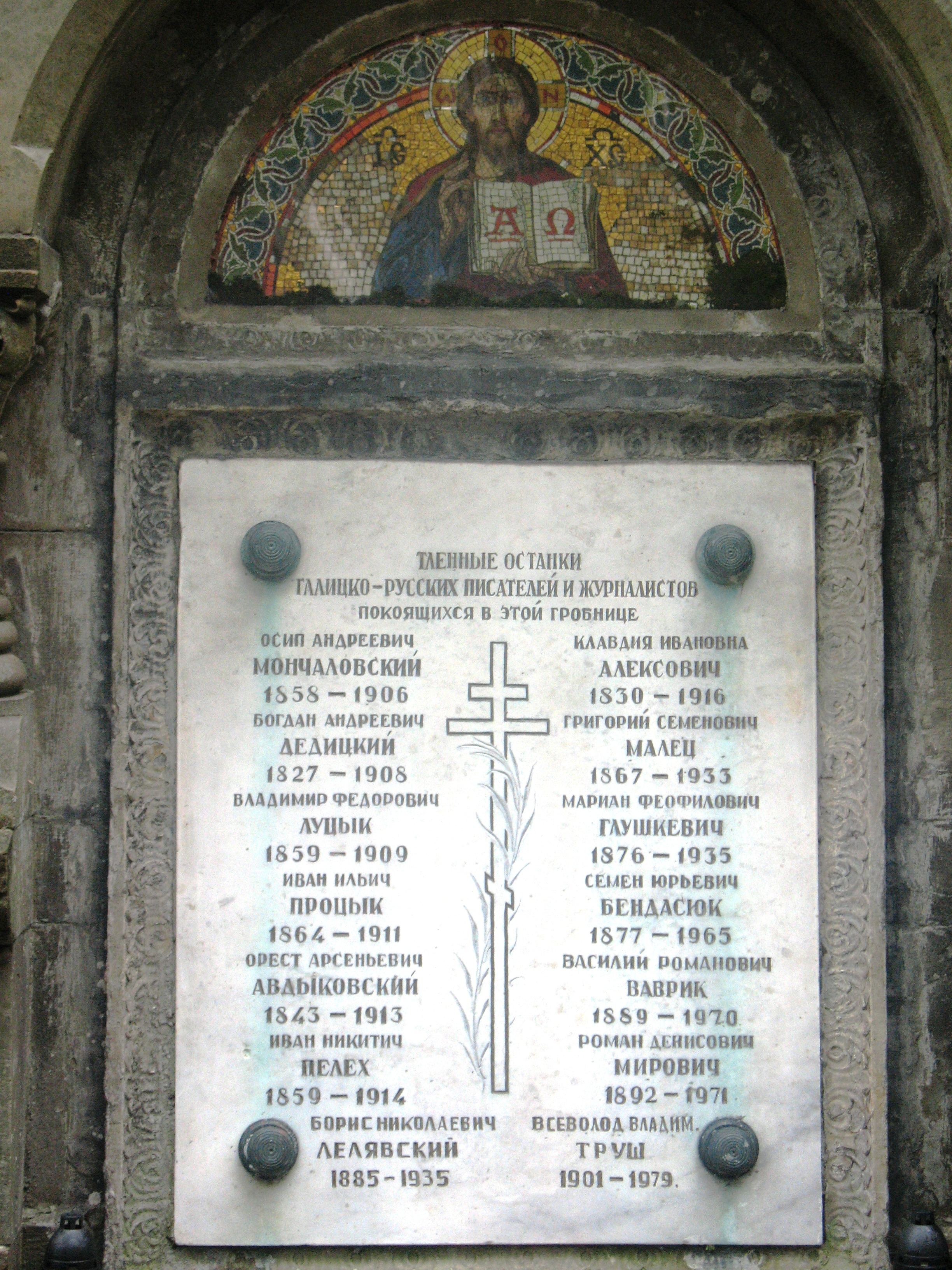 Tomb of Russian journalists in Lvov